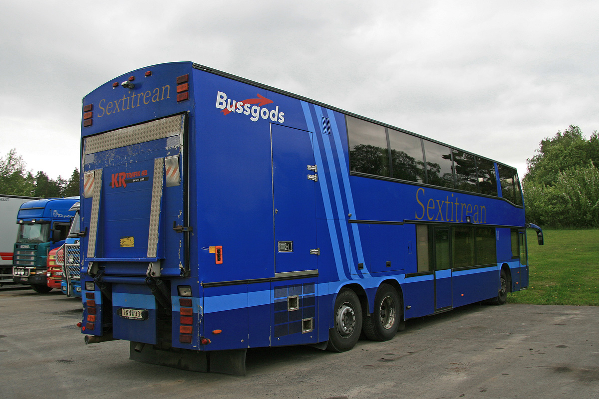 Helmark 420SEL on Scania K124EB6x2LI420 in Östersund.